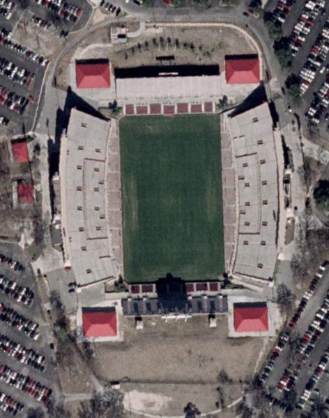 An aerial view of Robertson Stadium in Houston, Texas on the campus of the University of Houston. The stadium is home to the Houston Cougars football program and the Houston Dynamo.